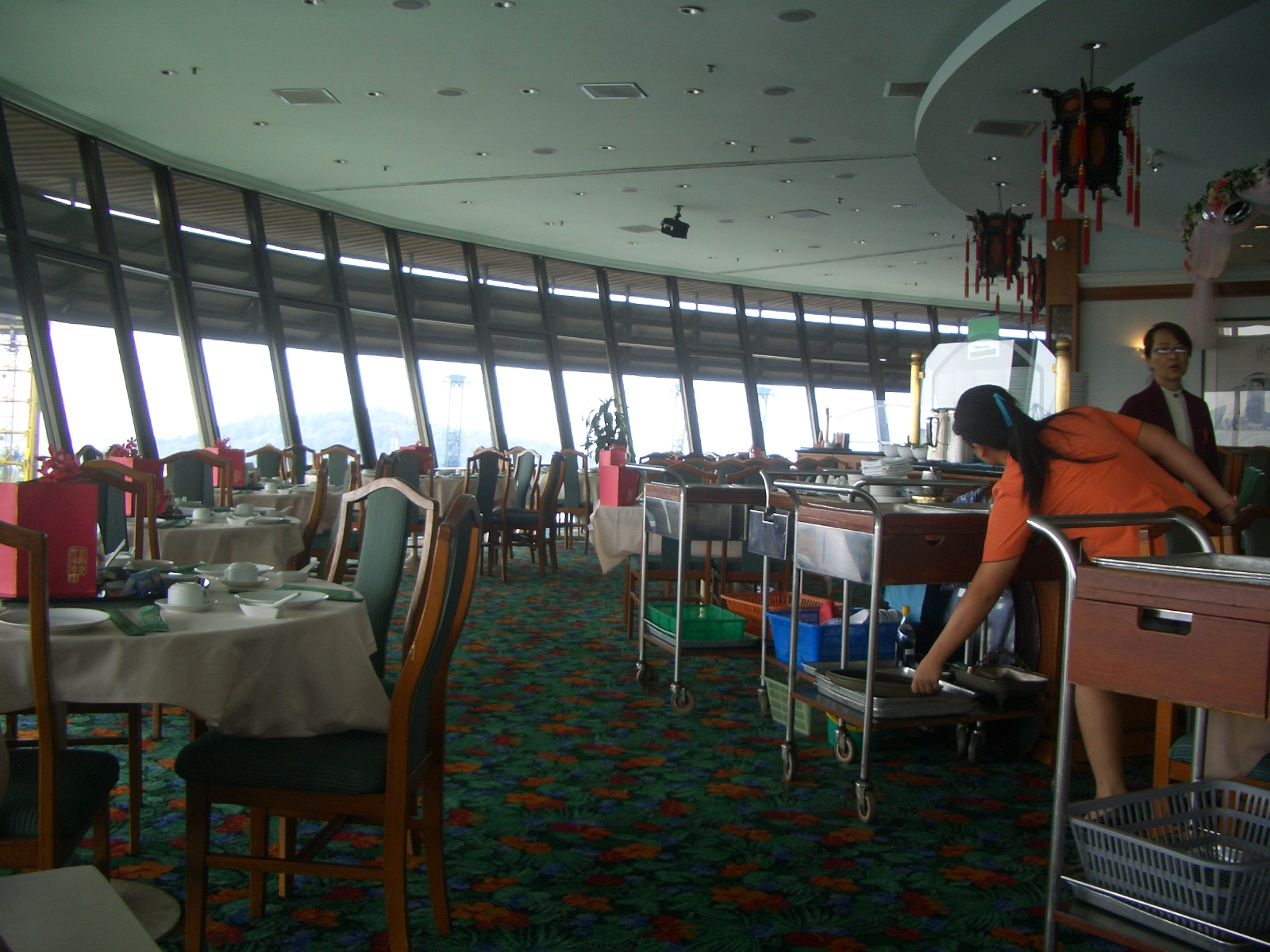 Prima Tower (Singapore) dining area showing an example of a revolving restaurant. Prima Tower Revolving Restaurant. Prima Tower.